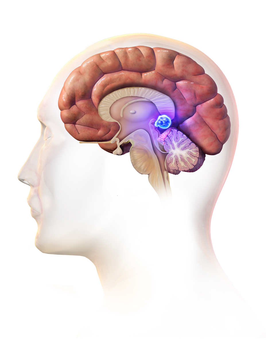 Pineal Tumor. This image was donated by Blausen Medical. Please visit our website to see more medical illustrations and animations.